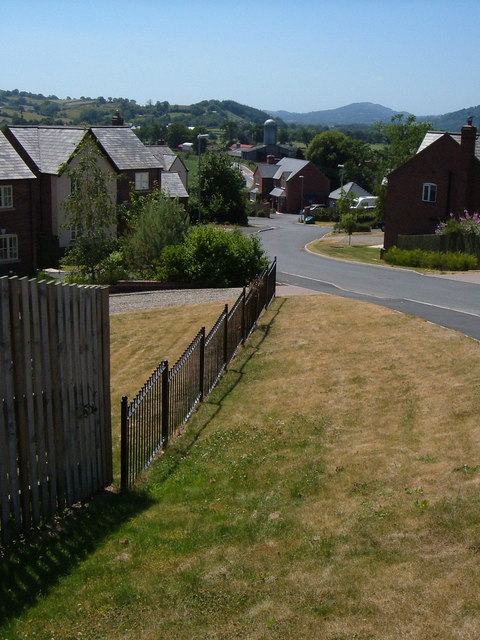 Trewern. New housing at the foot of Garreg Bank. The silo tower marks Fron Hall, on the A458.